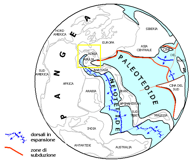 Earth in Early Triassic time